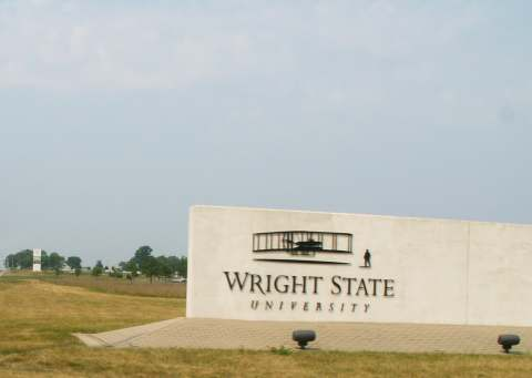 Entrance sign to the Wright State University main campus, Fairborn, Ohio, USA.